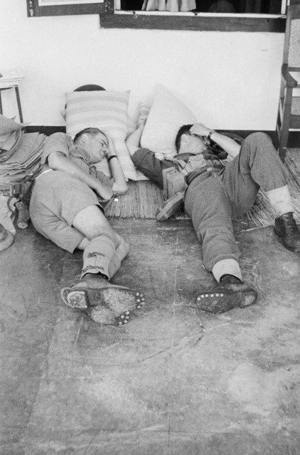 Captain D. D. Guild and Captain S. J. Handasyde, both members of the 2/2nd Australian Pioneer Battalion, getting a few minutes sleep during the action at Leuwiliang. Soon after this photograph was taken Captain Guild's Company was sent into a counter attack, and during this action A Company was cut off by the Japanese and forced to retreat.